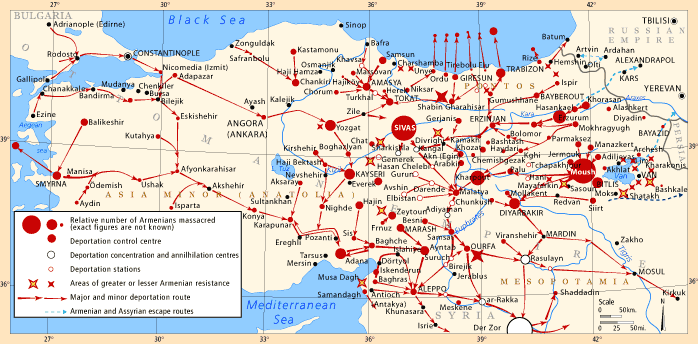 Armenian Genocide, 1915